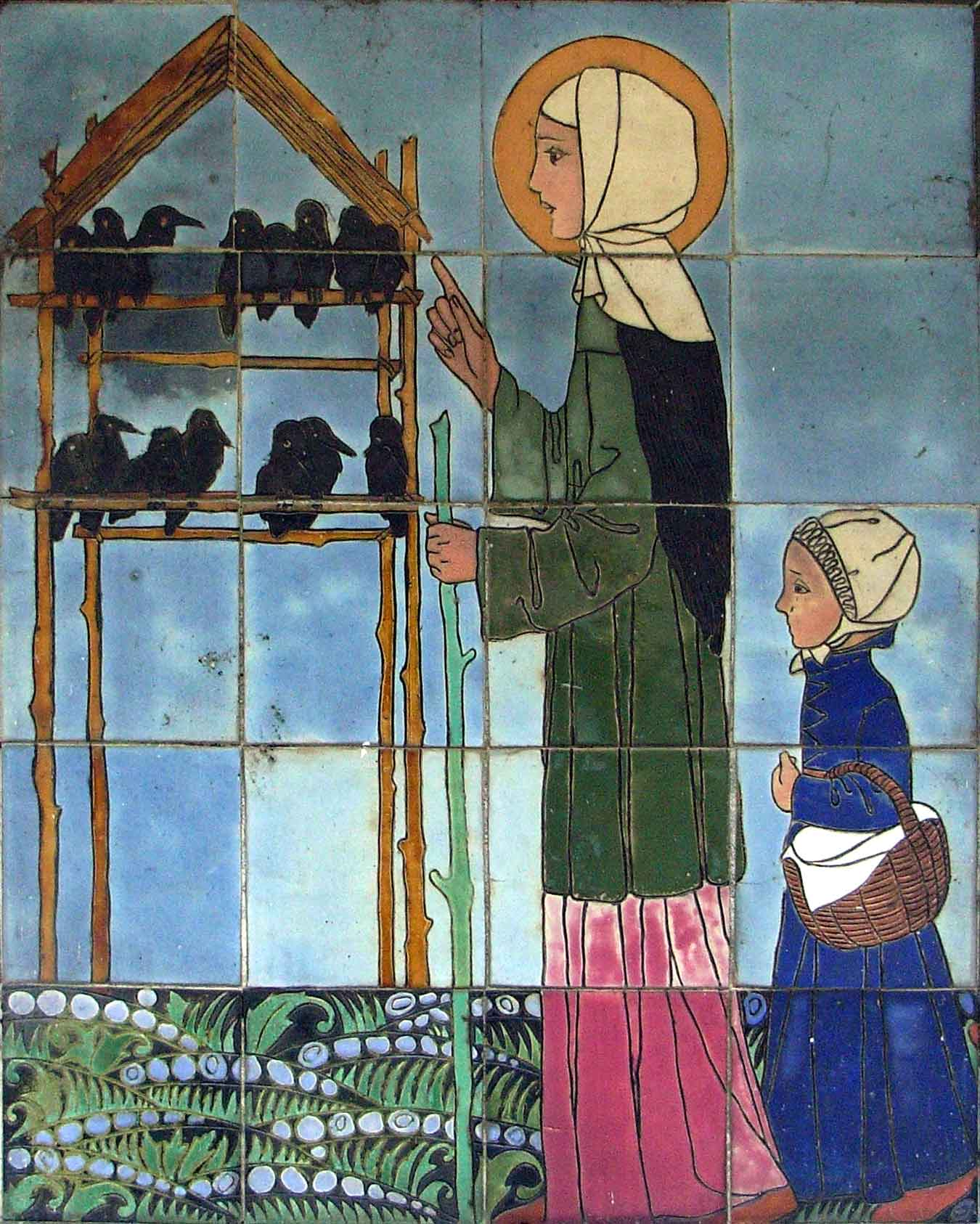 Ceramics, Legend of Godelieve and the ravens (Image in Procession Chapel in Gistel, Belgium)